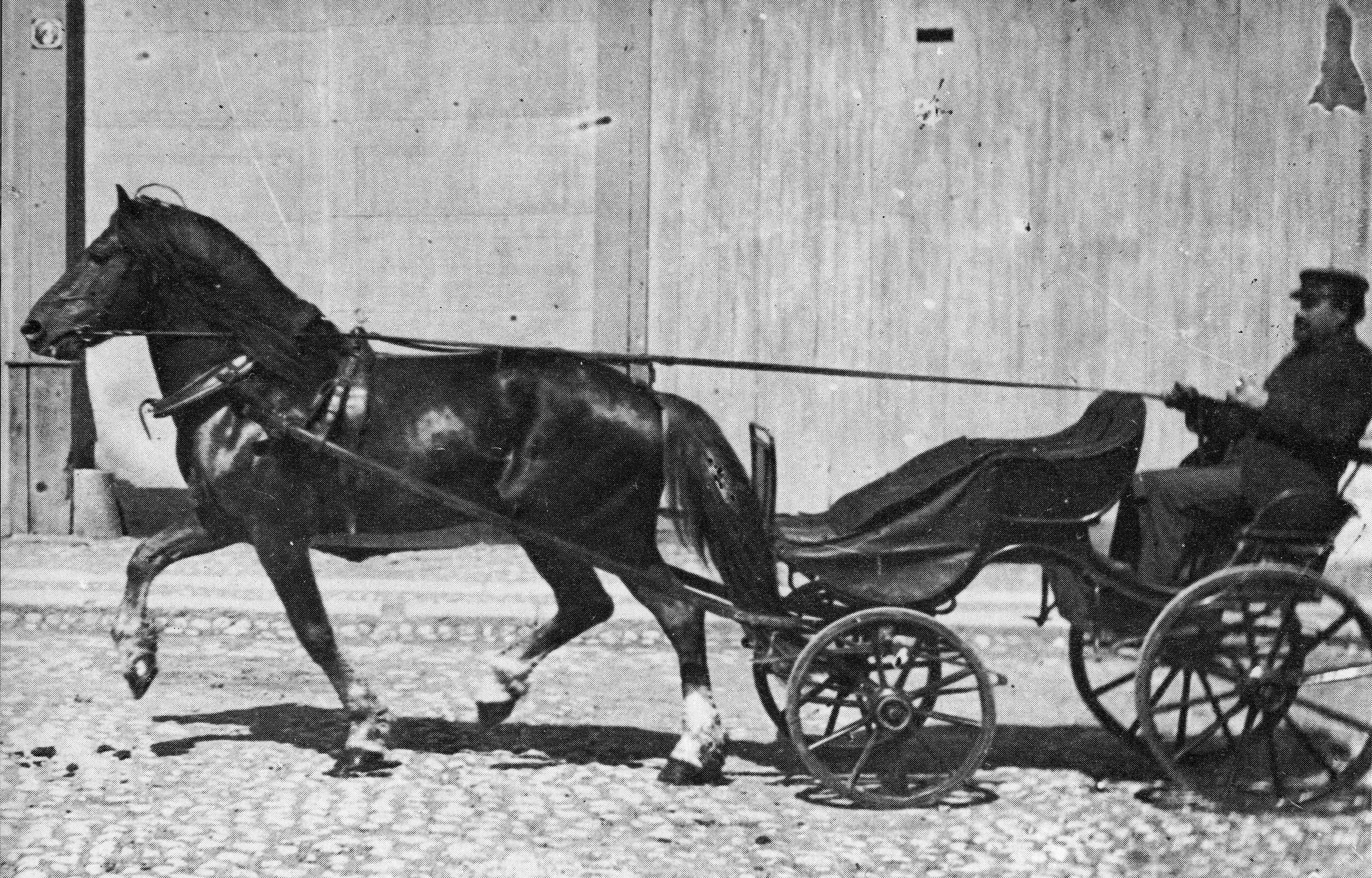 The famous Finnhorse stallion Kirppu Tt 710, one of the Finnhorse founding stallions, driven by his owner Fabricius.